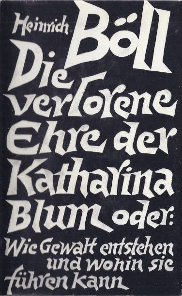 Book cover of Heinrich Böll "Die verlorene Ehre der Katharina Blum" 1974